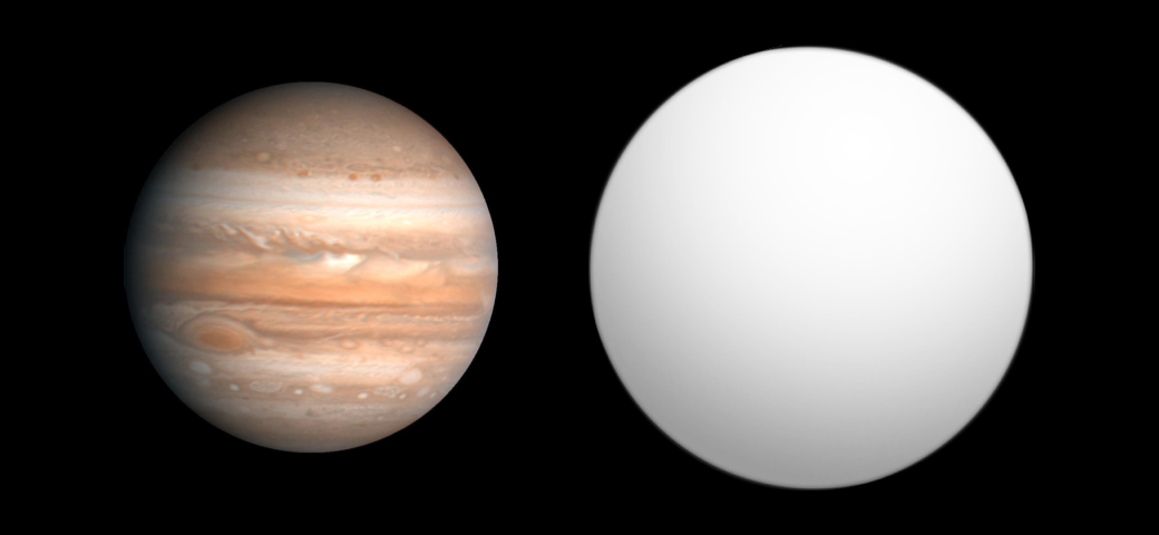 Comparison of best-fit size of the exoplanet HAT-P-2 b with the Solar System planet Jupiter, as reported in the Open Exoplanet Catalogue[1] as of 2010-09-30. ↑ Open Exoplanet Catalogue (2010-09-30). Retrieved on 2010-09-30.